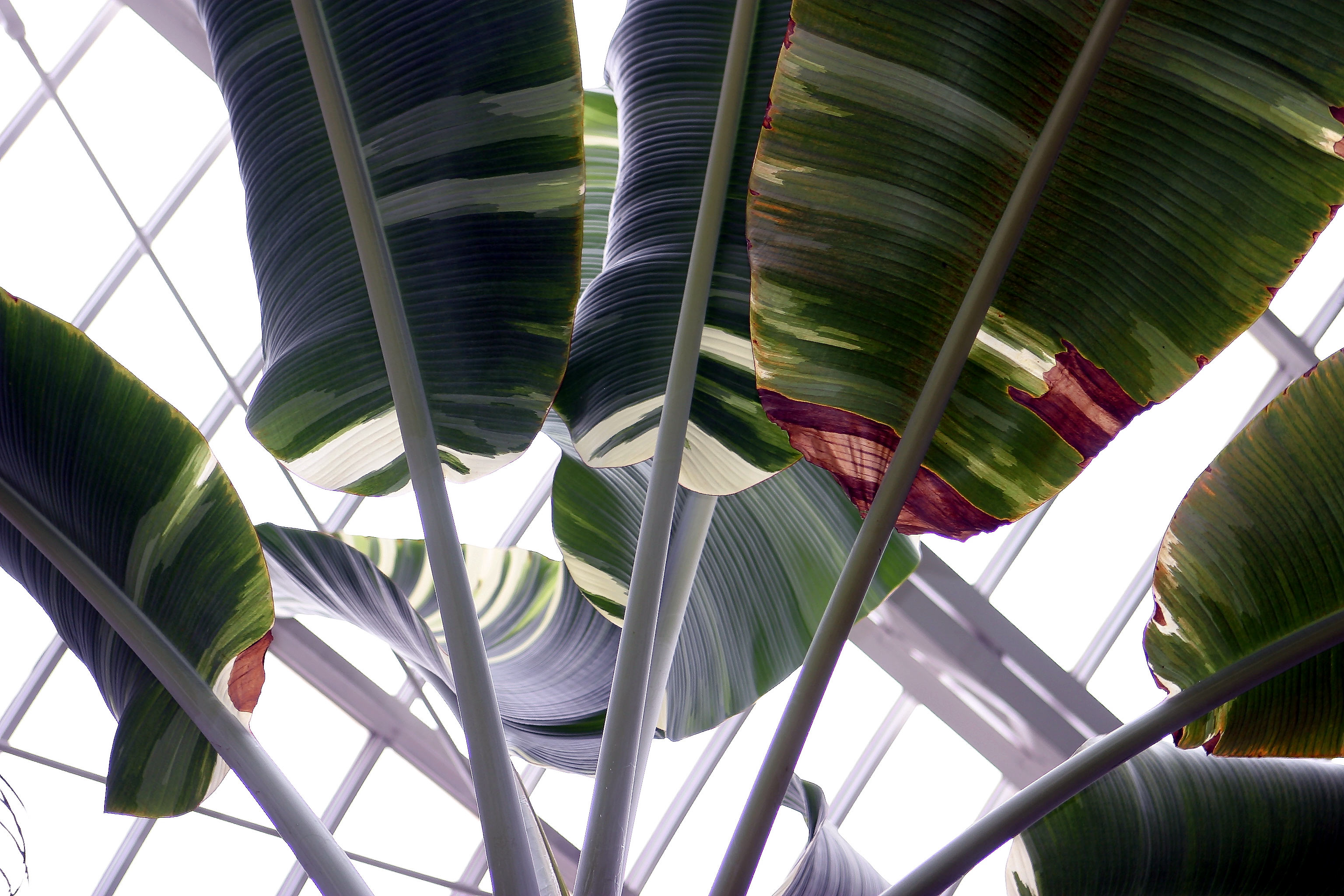 Self made picture taken 2008.